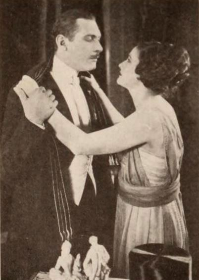 Still from the American drama film The Butterfly Man (1920) with Lew Cody and an unidentified actress, on page 86 of the May 8, 1920 Exhibitors Herald.